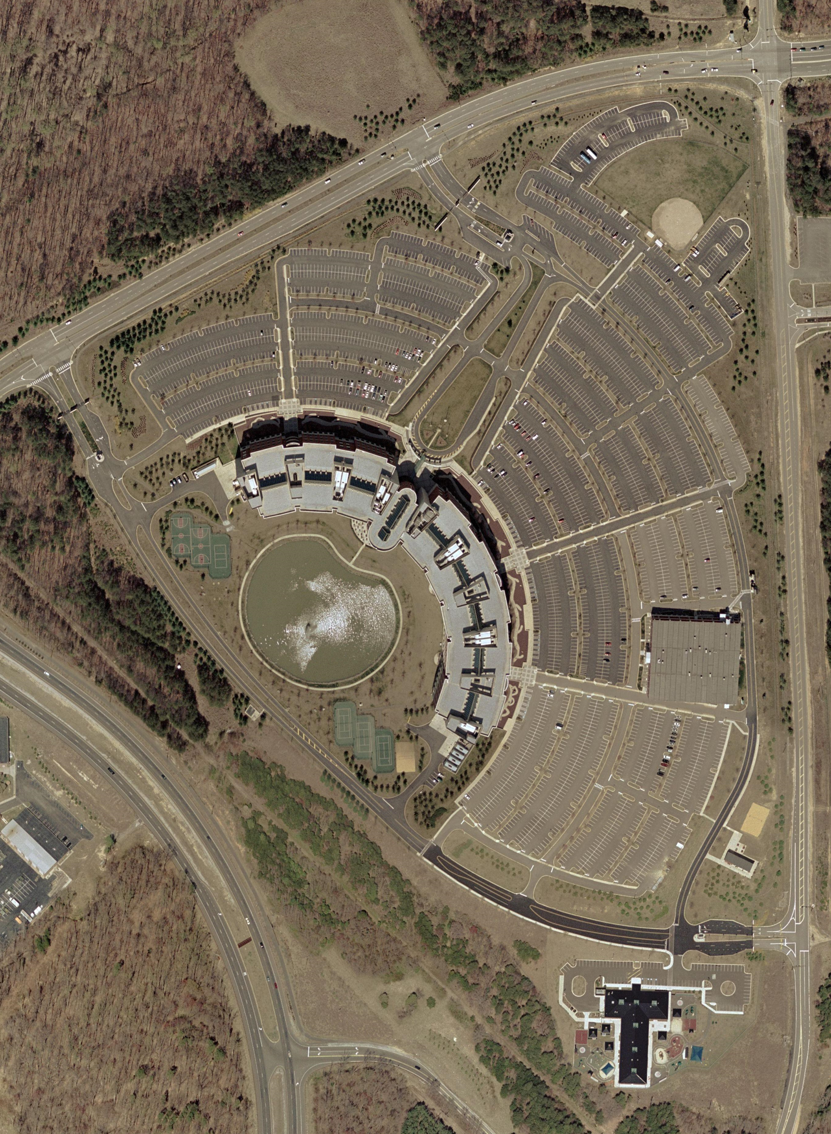 Aerial image of the Defense Logistics Agency headquarters building at Fort Belvoir, Virginia, also known as the Andrew T. McNamara Headquarters Complex.